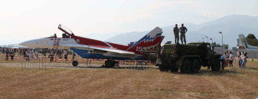 MiG-29OVT field refueling by Ural Truck at the Plovdiv Airshow 2011